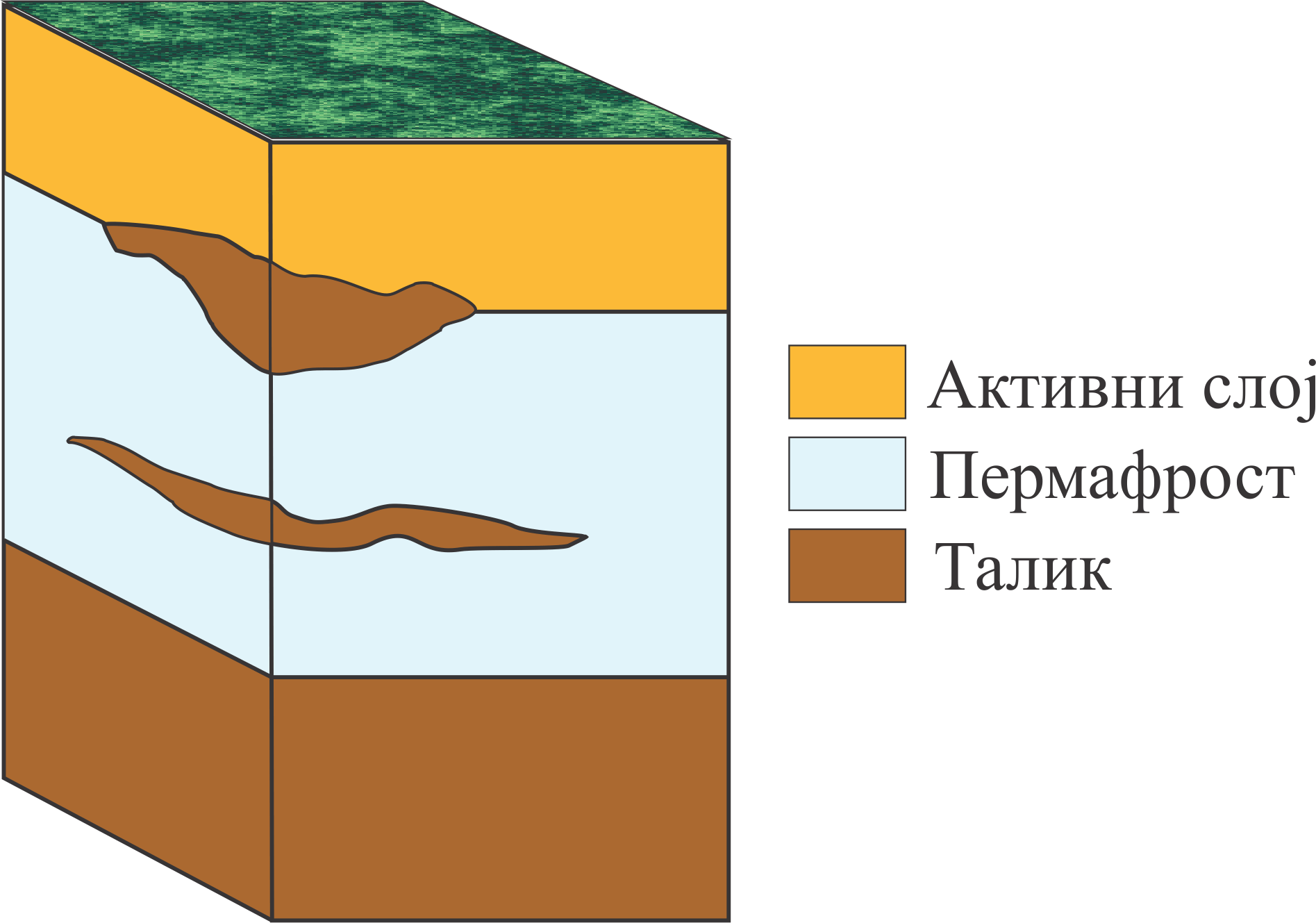 Permafrost block diagram